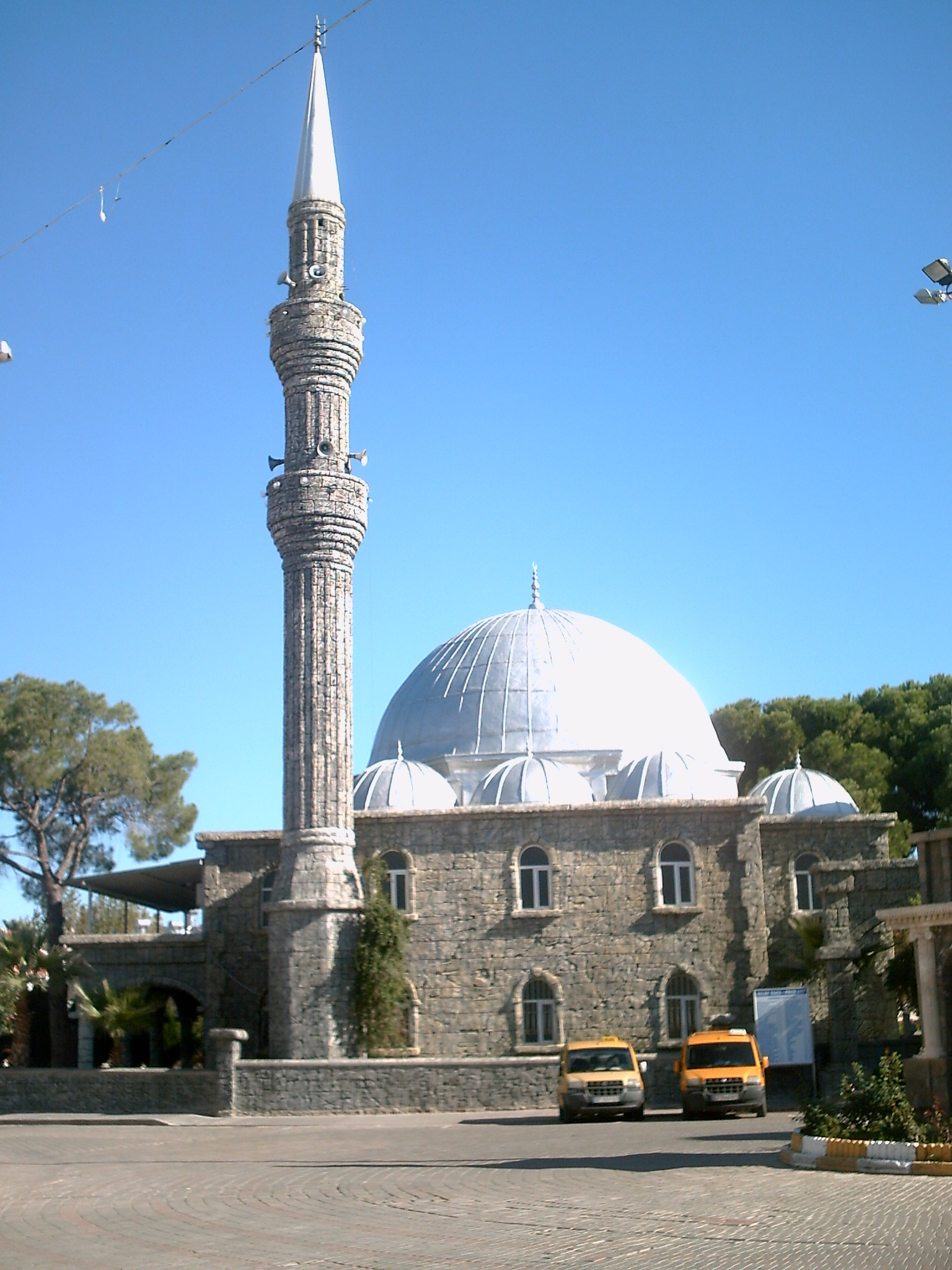 Mosque and minaret in Belek near Antalya (Turkey)